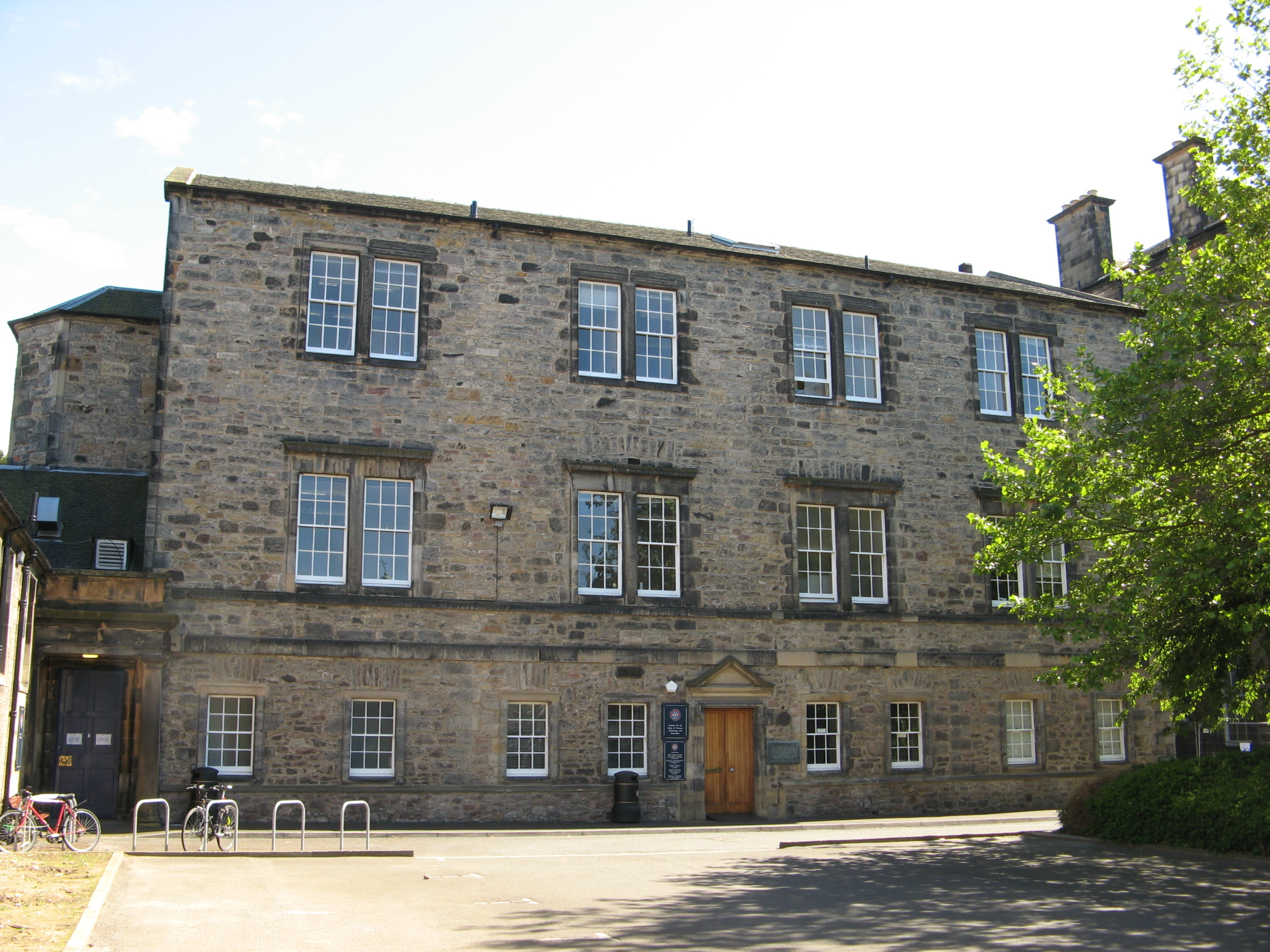 Old Surgeons' Hall, Surgeons' Square, High School Yards, Edinburgh. Built 1697 by architect James Smith for the Royal College of Surgeons of Edinburgh. Later part of the Edinburgh Royal Infirmary, now the Institute for the Study of Science, Technology, and Innovation, of the University of Edinburgh.